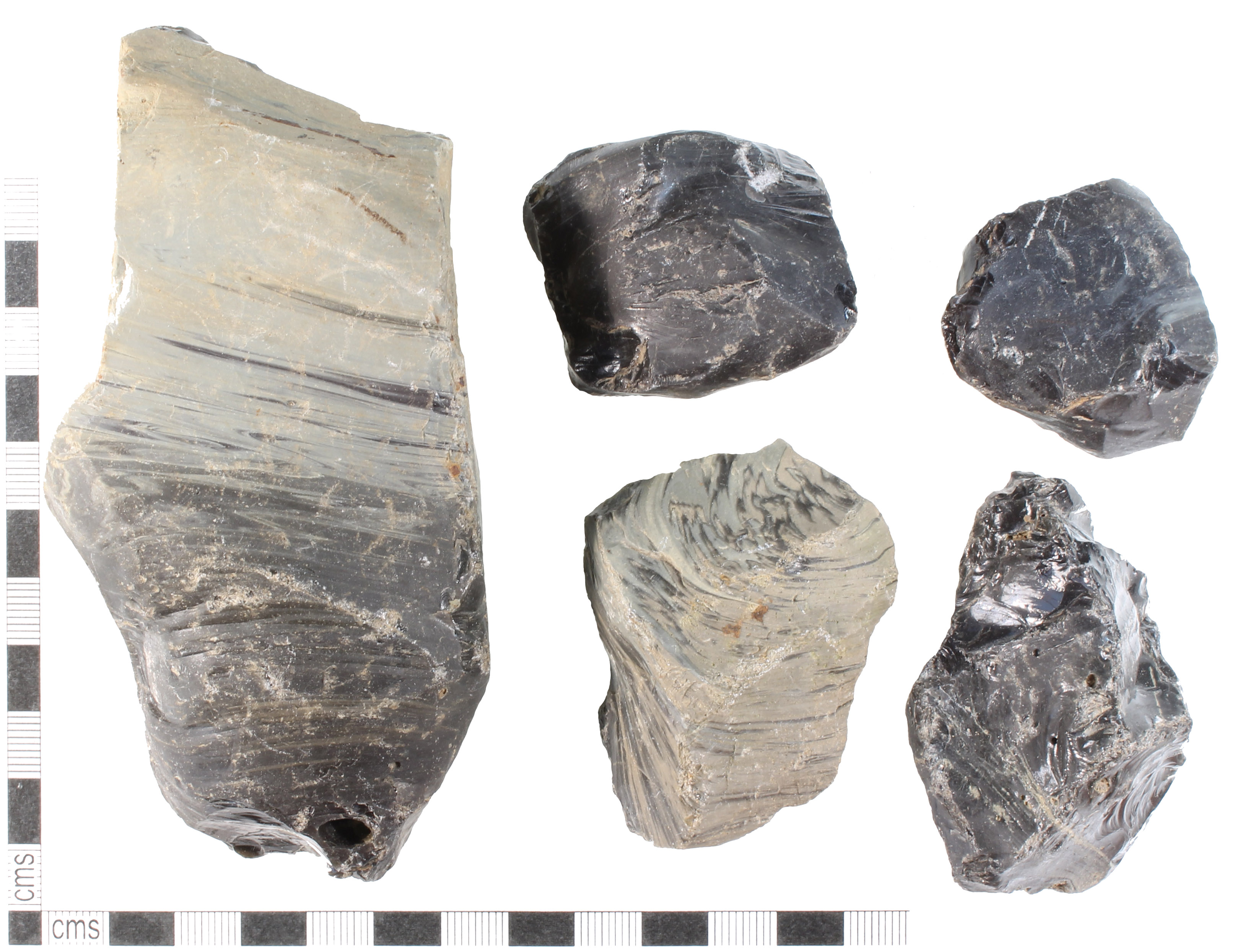 Five fragments of Blast Furnace Slag of Post-Medieval date. The slag is irregular in shape with many broken edges. It is black to light grey in colour, with layering of colours in many areas. These five fragments are only a representation much more of the material that was found in the area. Dr Justine Bayley comments "Blast furnace slag was produced in vast quantities as a by-product of iron smelting and shipped all over the country for use as hardcore, especially in areas that had no local sources of hard stone. It's used as ballast under railway tracks, and in smaller quantities gets dumped in muddy cart tracks and field gateways etc - so it can turn up almost anywhere. It's much less dense than medieval and earlier smelting slags as much of the iron is replaced by lime. This means you can extract much more of the iron present in an ore, but the disadvantage is that the slags are only liquid at significantly higher temperatures, which only became practicable with larger furnaces and water-powered bellows - a late to post-medieval innovation."